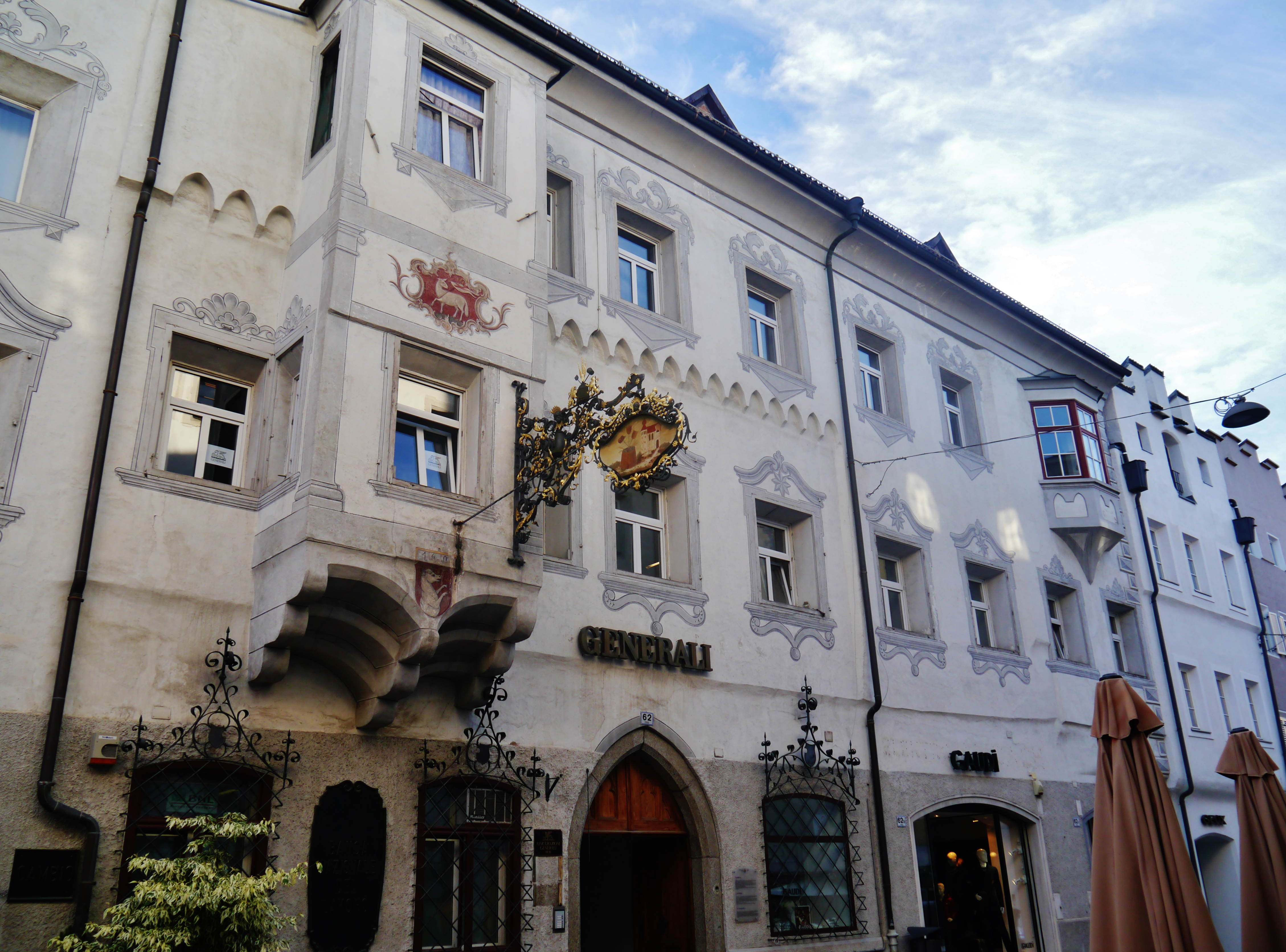 Town Street, Brunico, Province of Bolzano (South Tyrol), Region of Trentino-Alto Adige/Südtirol, Italy